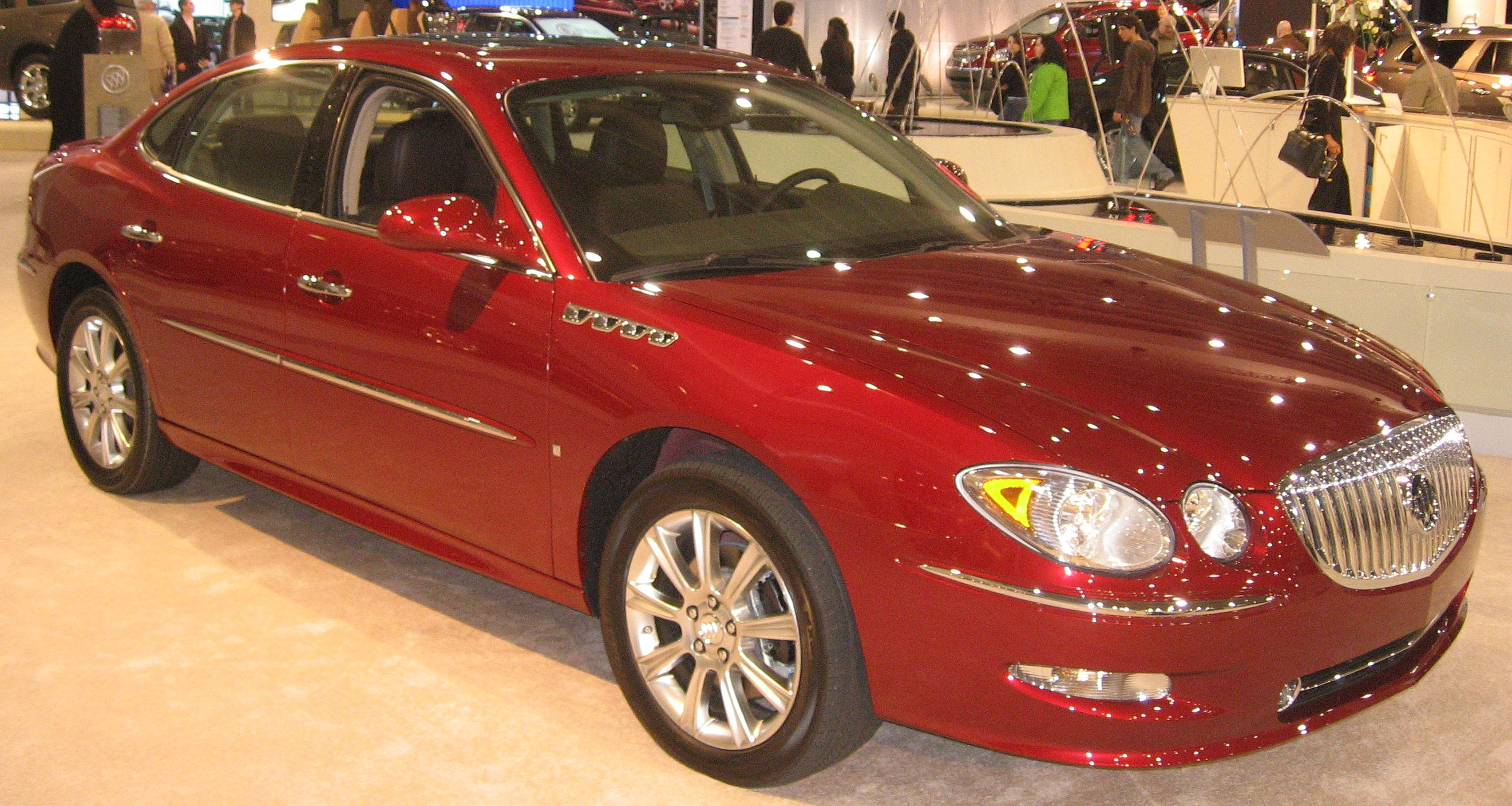 2008 Buick LaCrosse photographed at the 2008 Washington DC Auto Show.